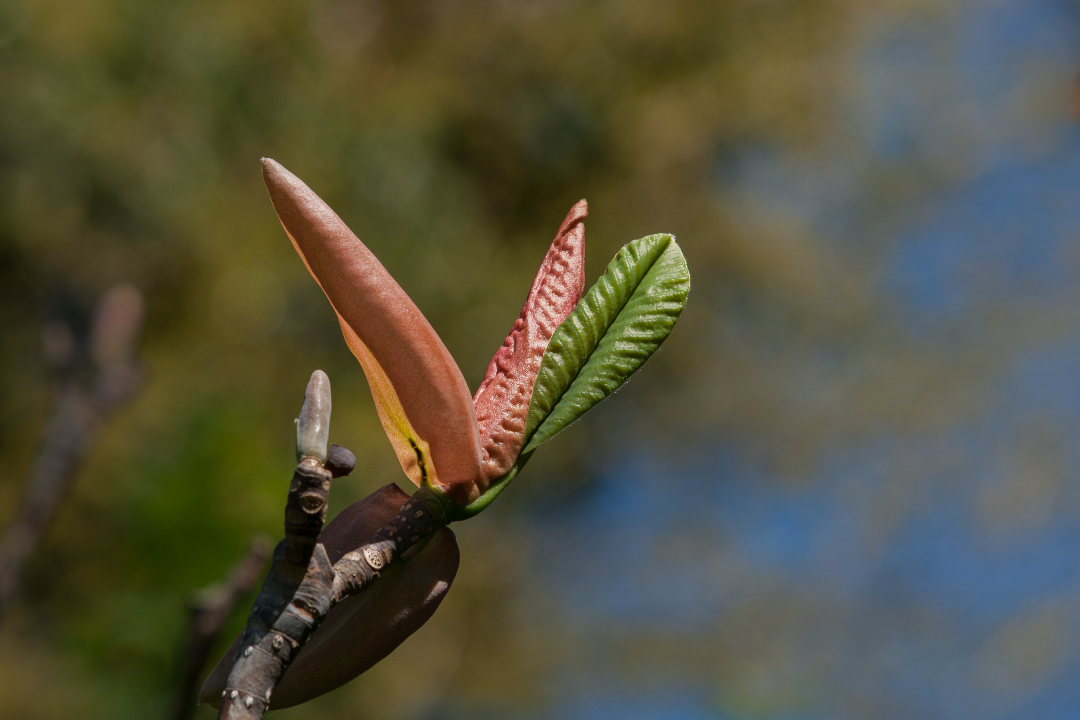 Partially opened Magnolia obovata bud